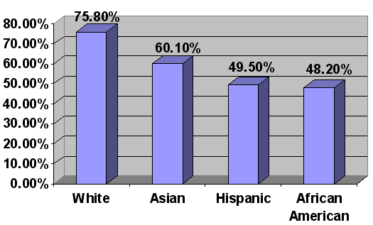 I created the graph myself using data by the US Census Bureau taken from here: [1].